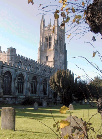 St. Neot's, Cambridgeshire